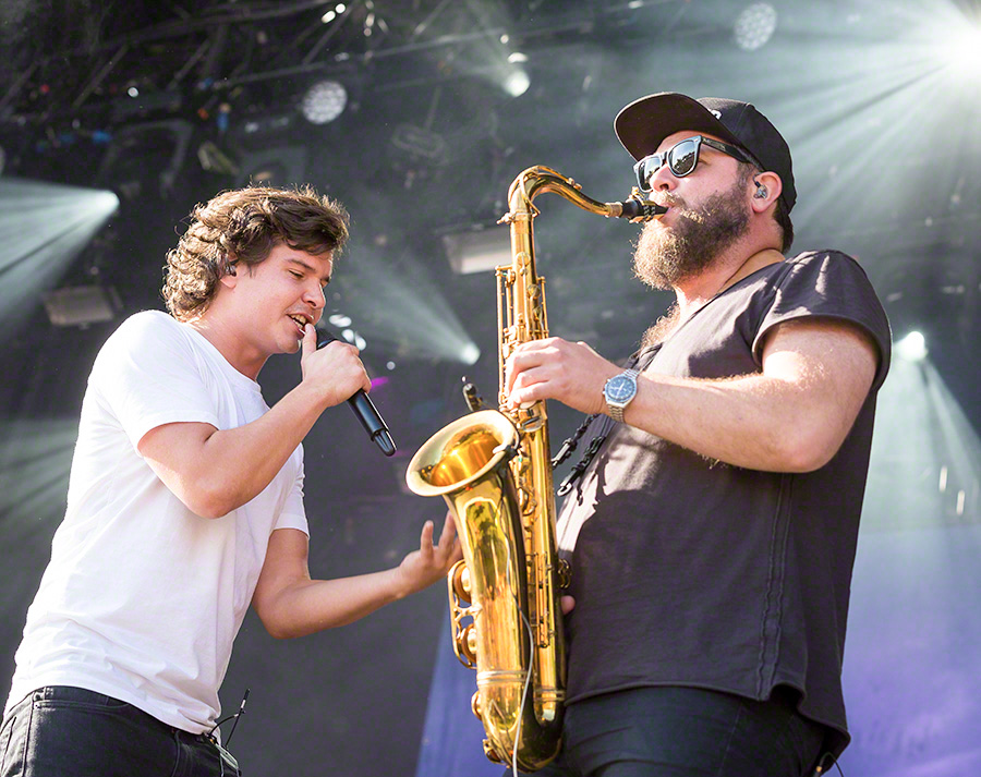 Lukas Graham at the minor stage during Stavernfestivalen in Stavern on 09. July 2016. Lineup:Lukas Graham (vocal)Unidentified (drums)Unidentified (bass)Unidentified (keyboard)Unidentified (trombone)Unidentified (baritone saxophone)Unidentified (trumpet)